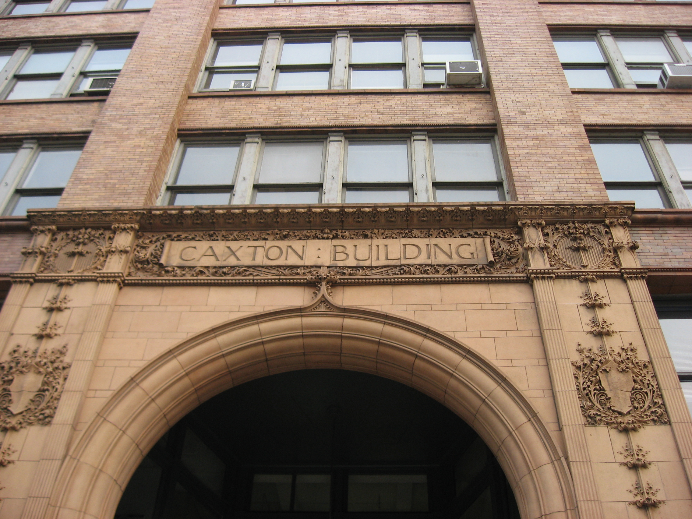 Archway entrance to the Caxton Building, a National Register of Historic Places property at 812 Huron Road SE in downtown Cleveland, Ohio, United States.